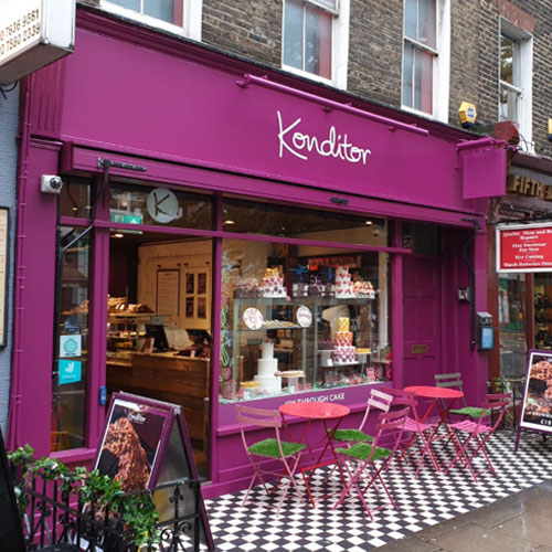 Image of our goodge street store